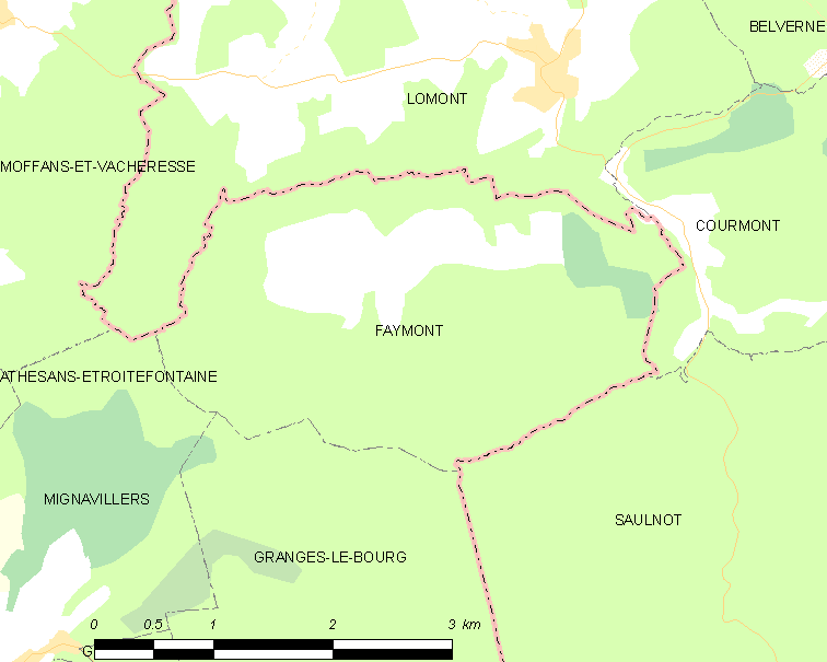 Map of French municipality